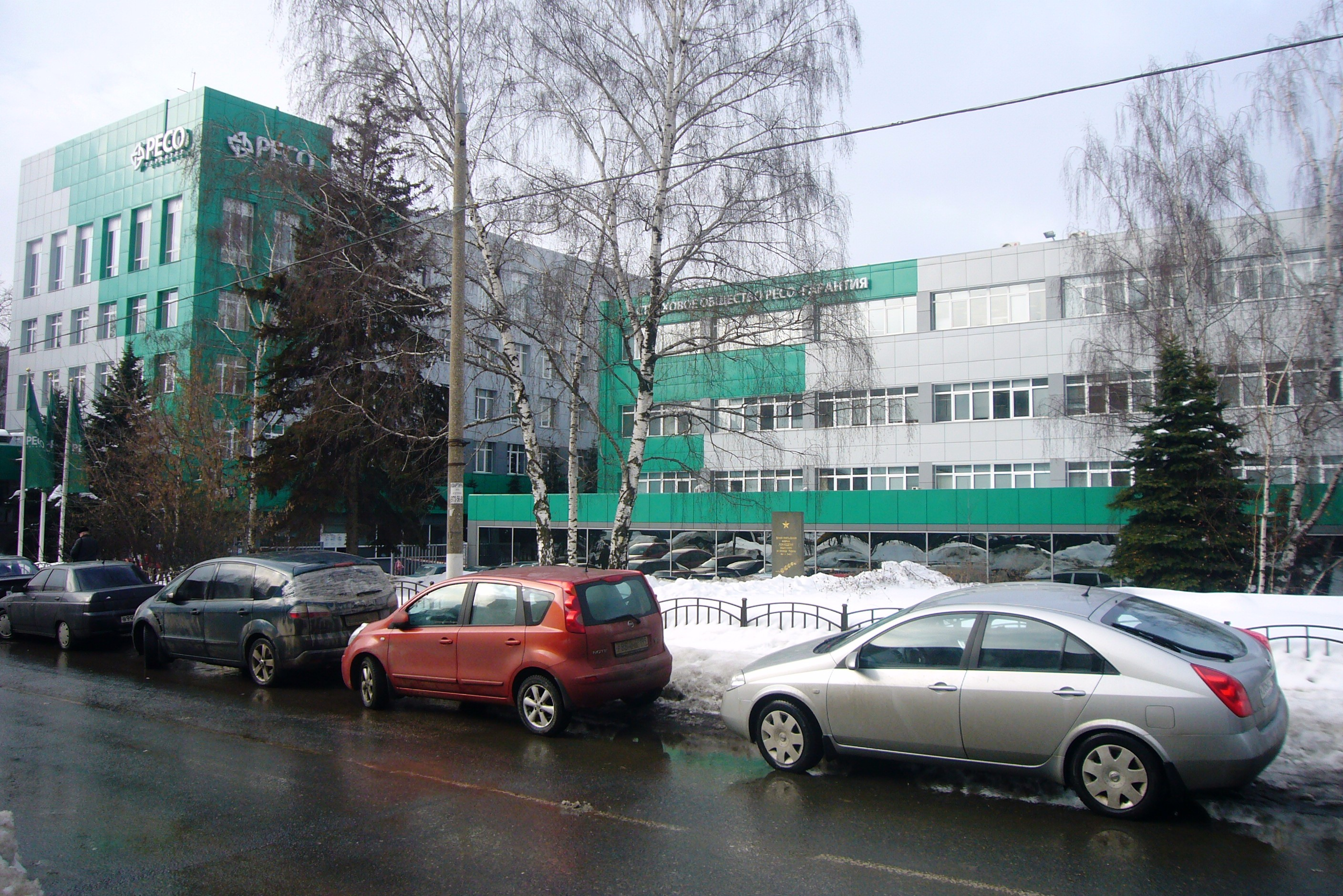 Nagorny Proyezd in Moscow, Russia.